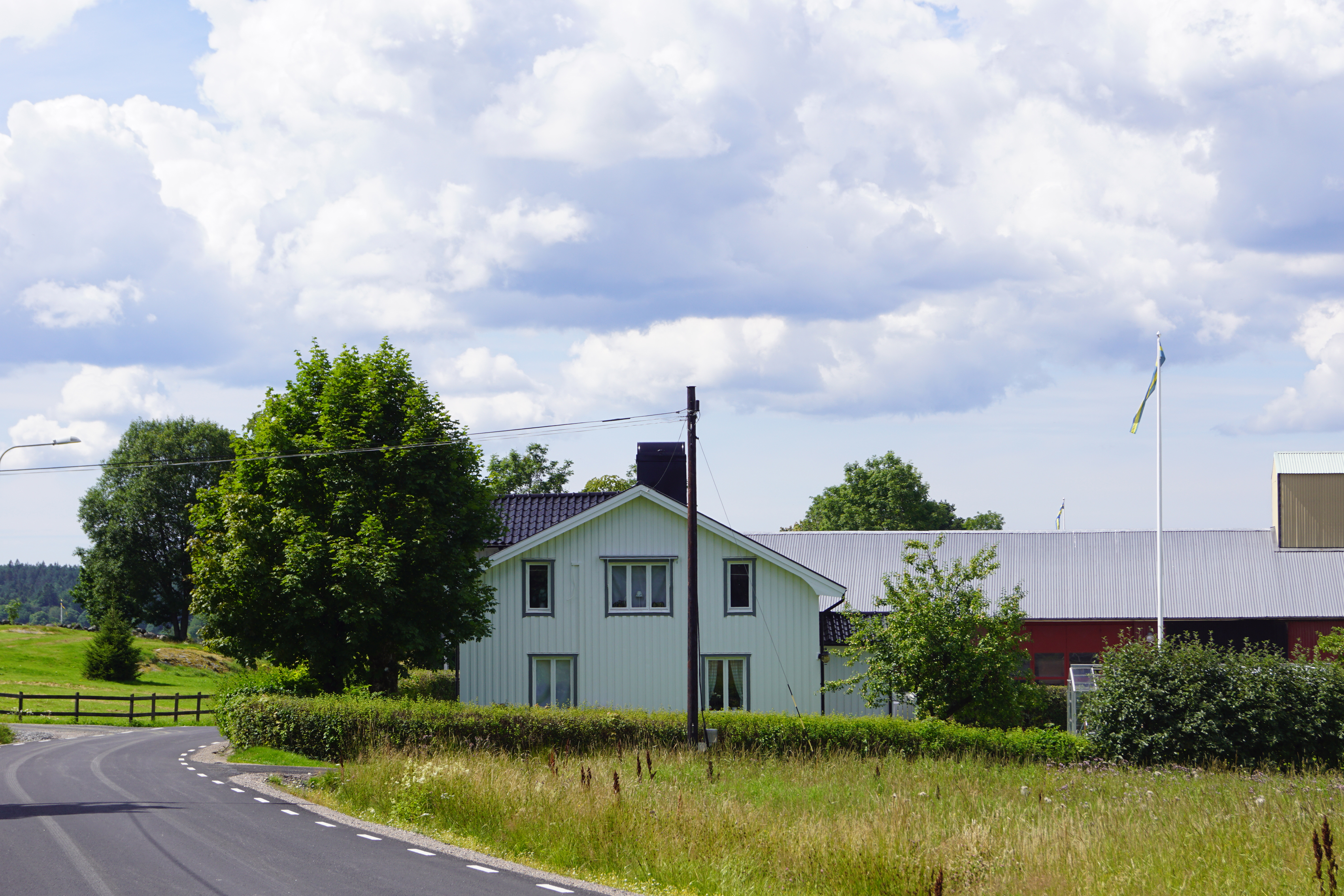 The former inn in Verle, Hålanda socken, Ale Municipality, Sweden.